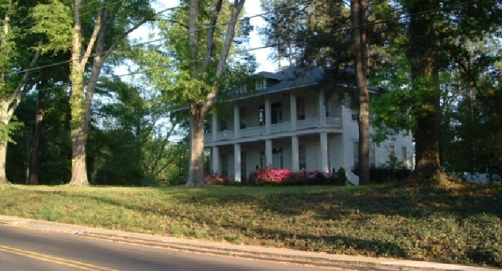 House built by U.S. Representative James Thomas Elliott housed Union General and Matthew Brady during Civil War